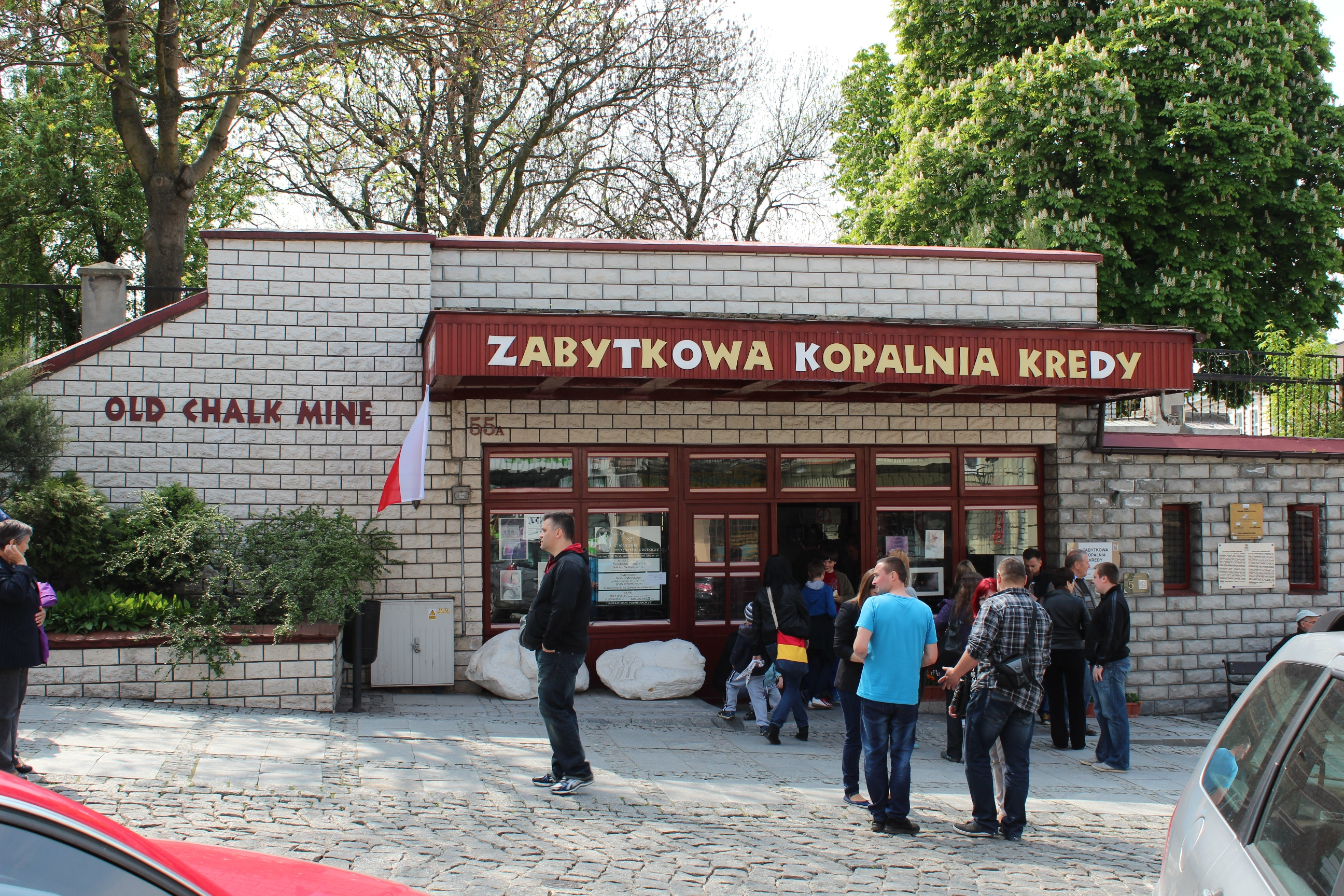 Cellers in Chełm